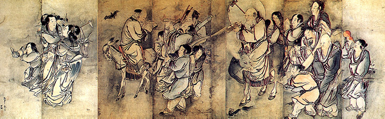 Taoist Immortals. Gun-seon-do-byeong. 132.8 x 575.8 cm. Kim Heung-do. 1776. Joseon Dynasty. This piece is designated as the 139th National Treasure of Korea and held by Leeum Museum in Seoul, South Korea